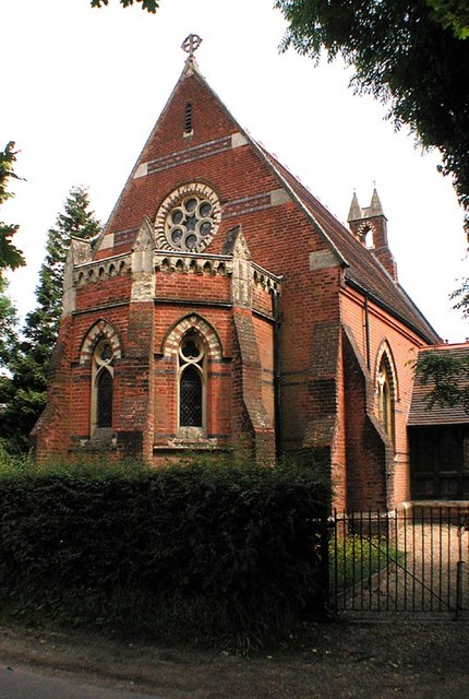 Holy Trinity, Bentley Heath, Herts